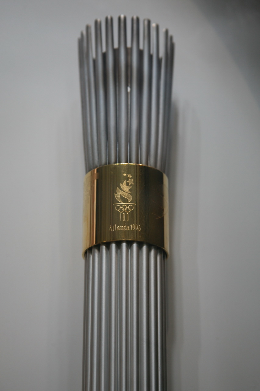 1996 Atlanta Summer Olympic Games Torch (Replica)